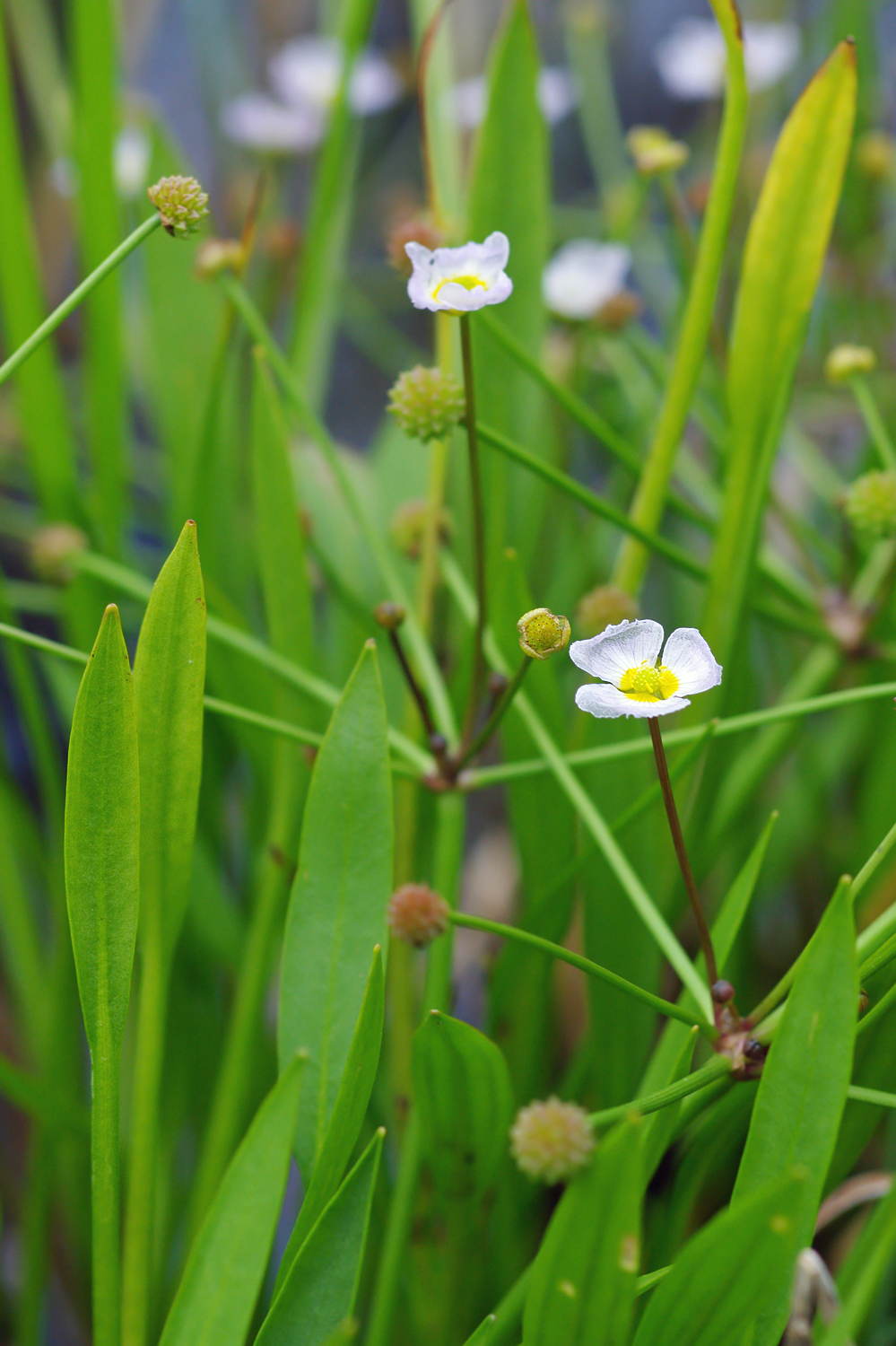 Habitus of the rare water plant Baldellia ranunculoides (Alismataceae) with blossoms, fruits, and leaves.